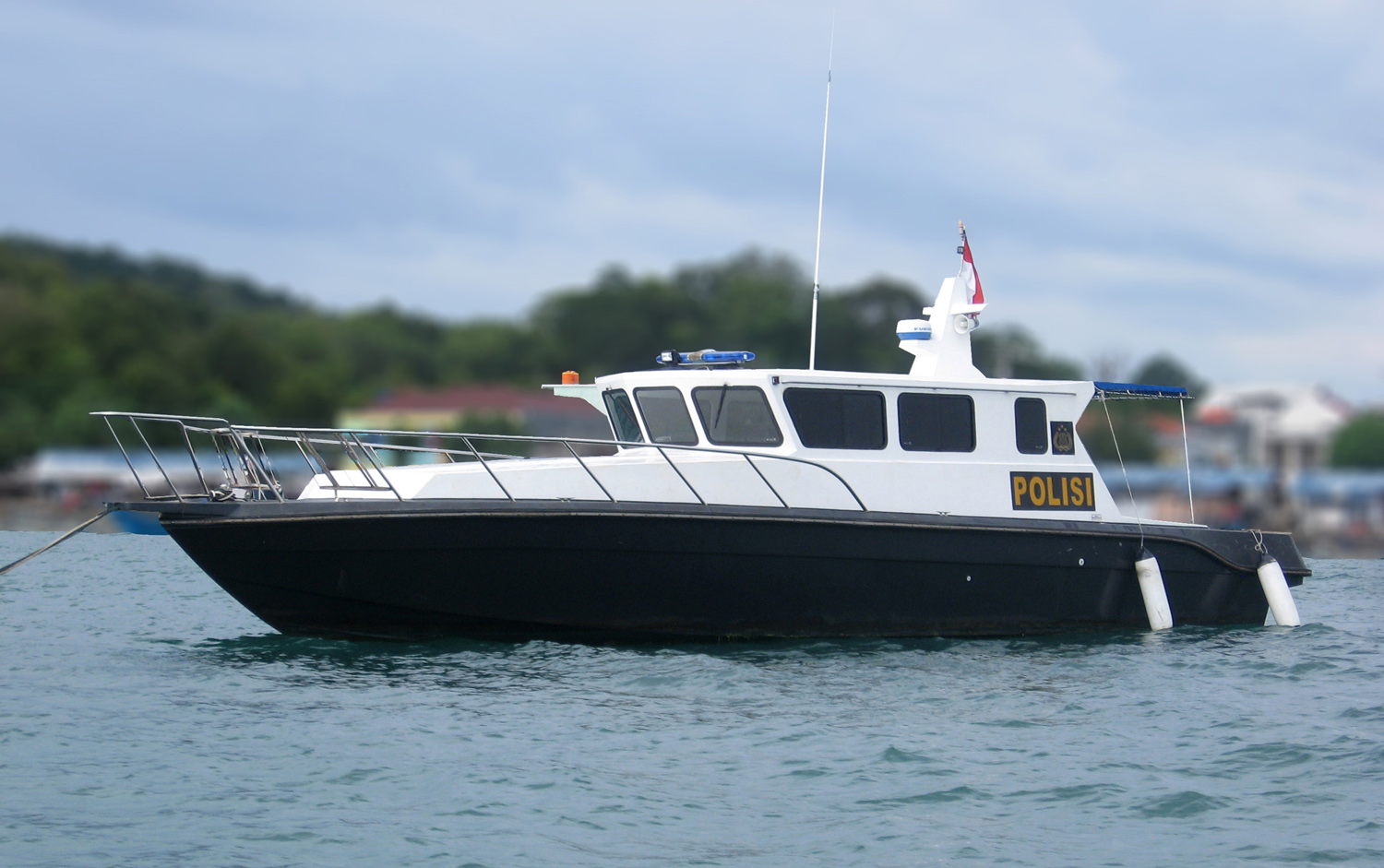 A patrol boat for the Indonesian police at Pangandaran, West Java